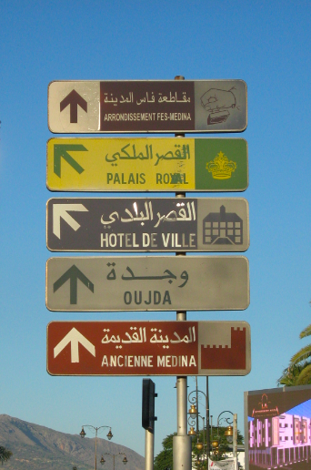 Bilingual Arabic-French sign in Morocco